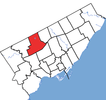 York Centre in relation to the other Toronto ridings (2015 boundaries)